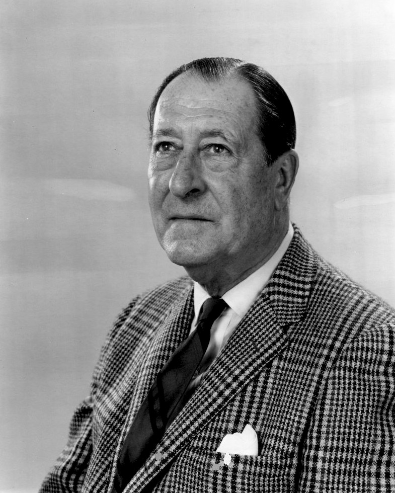 Photo of Arthur Treacher from The Merv Griffin Show.